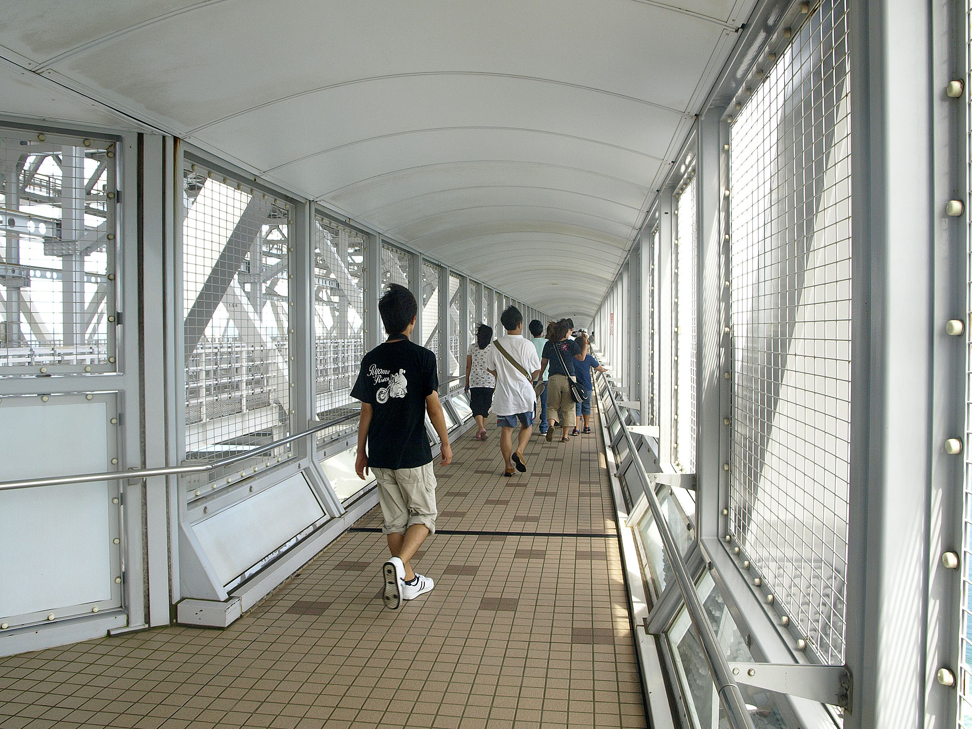 The air corridor of the Uzunomichi, the walkway under the Oh-naruto Bridge, Tokushima, Japan.